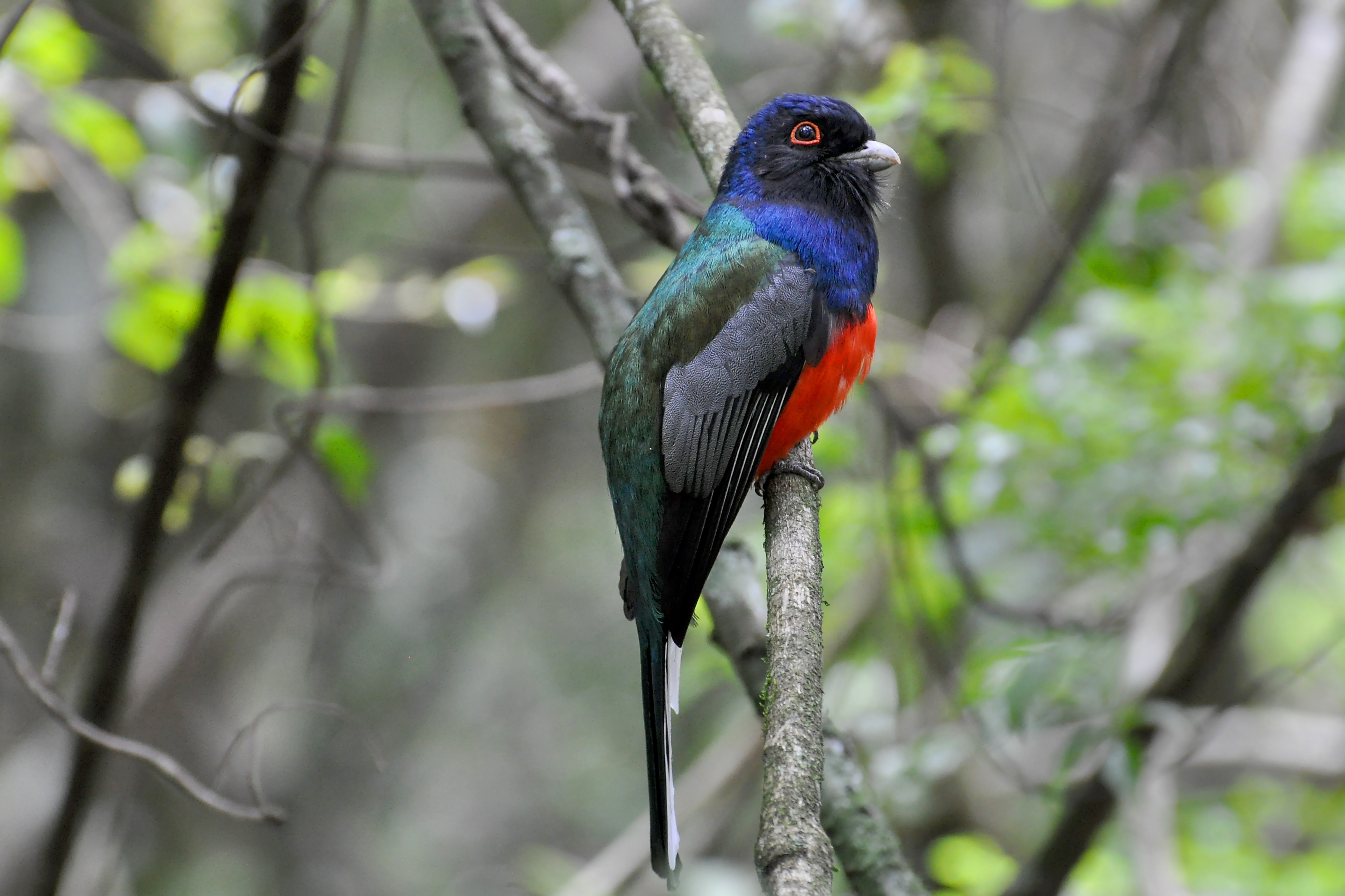 Trogon surrucura surrucura male photographed in Santa Catarina, Rio Grande do Sul, Brazil, in October 2010.